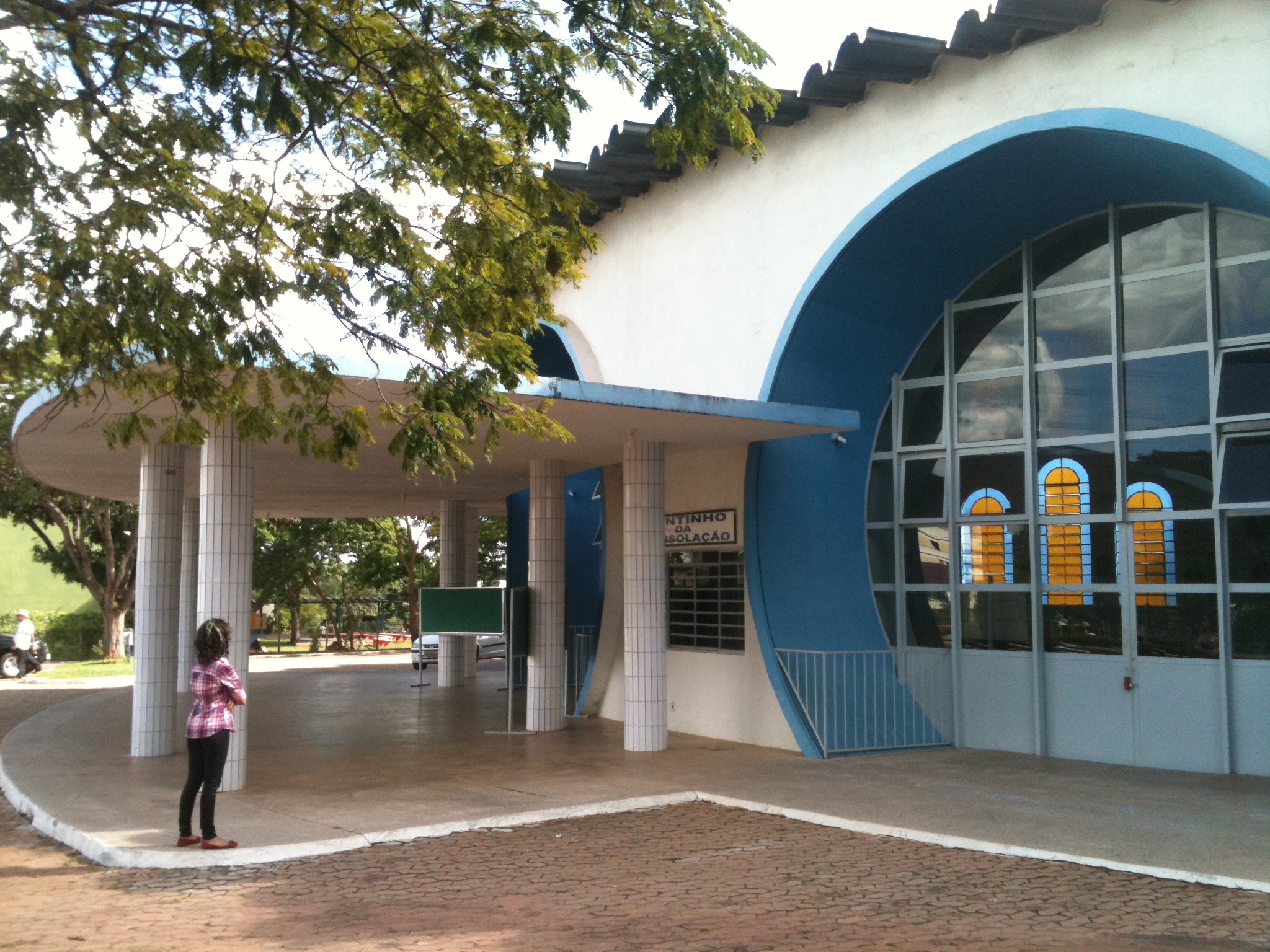 Nossa Senhora da Consolata church front door at 913 north in Brasilia, Brazil